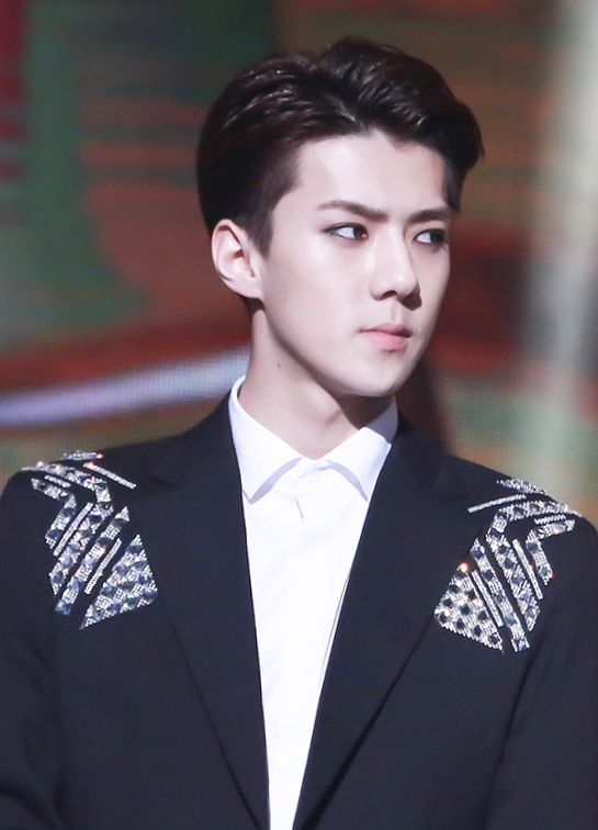 Sehun at the Golden Disk Awards on January 15, 2015.